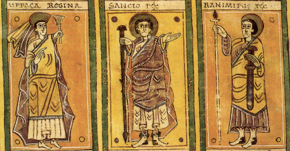 The monarchs of Navarre in the late tenth century. From the Codex Vigilanus.